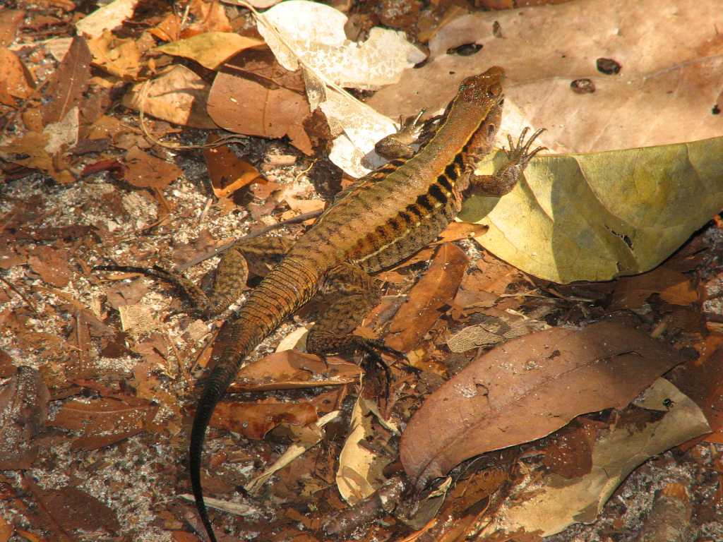 Tiger Ameiva (Ameiva festiva), Manuel Antonio Park, Costa Rica